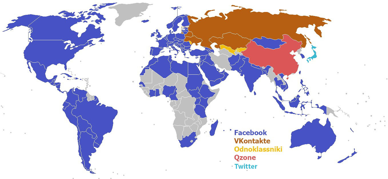 The most popular social networking sites by country.